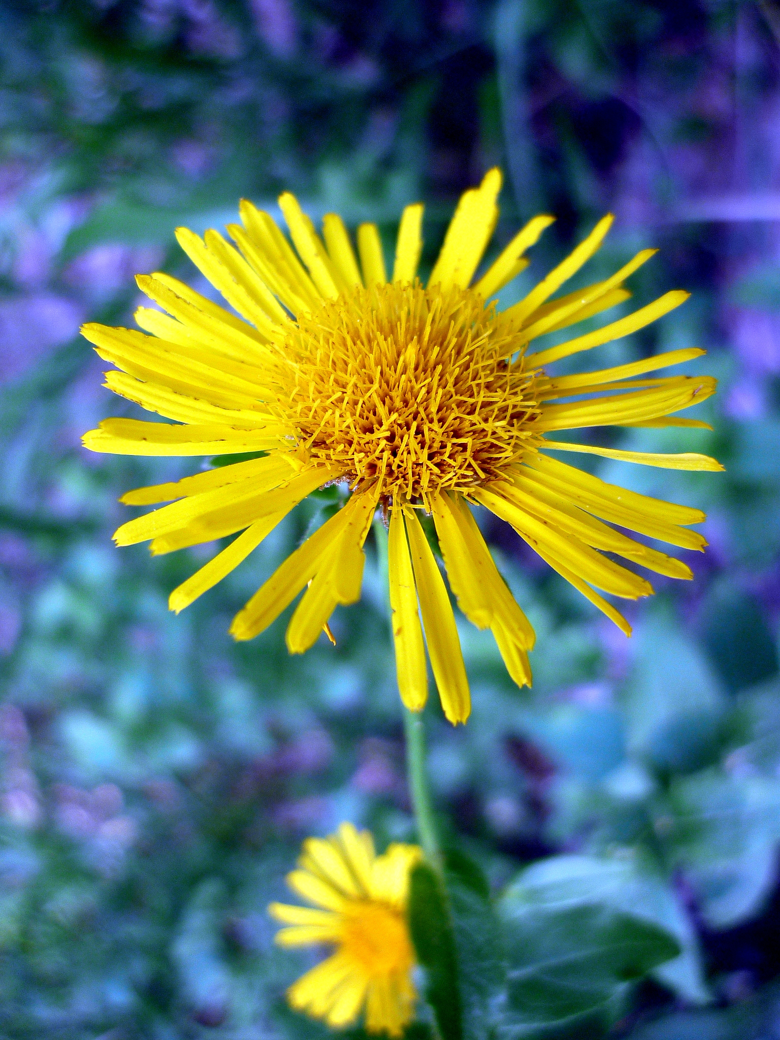 Inula salicina . In Pinós (Solsonès - Catalunya). To 610 m. altitude